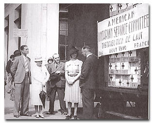 Milk distribution in France, organized by Martha Sharp, August 1940. Martha Sharp is the second from right.